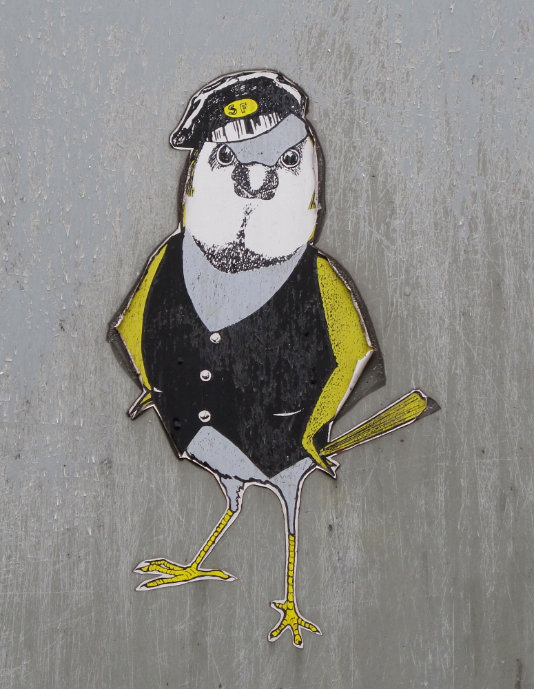 Stratford Loco Depot logo